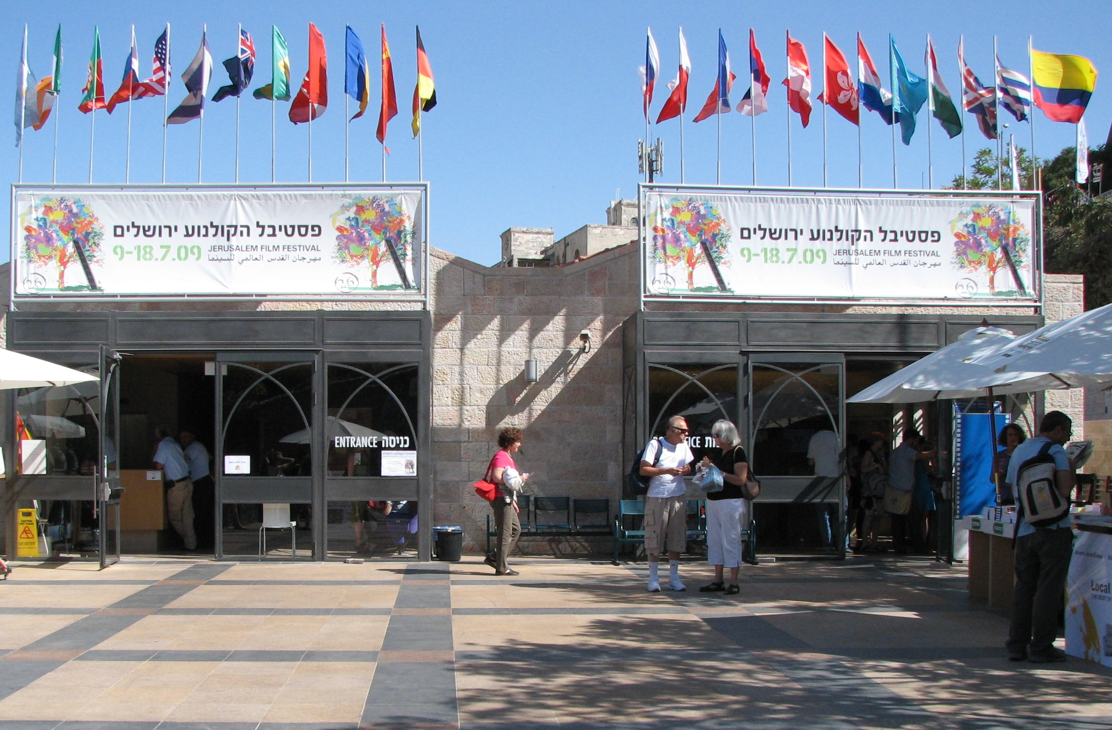 Jerusalem Film Festival 2009, Jerusalem Cinematheque, Israel